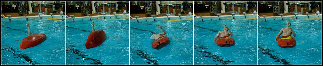 One hand eskimo roll, with a bottle in the hand.